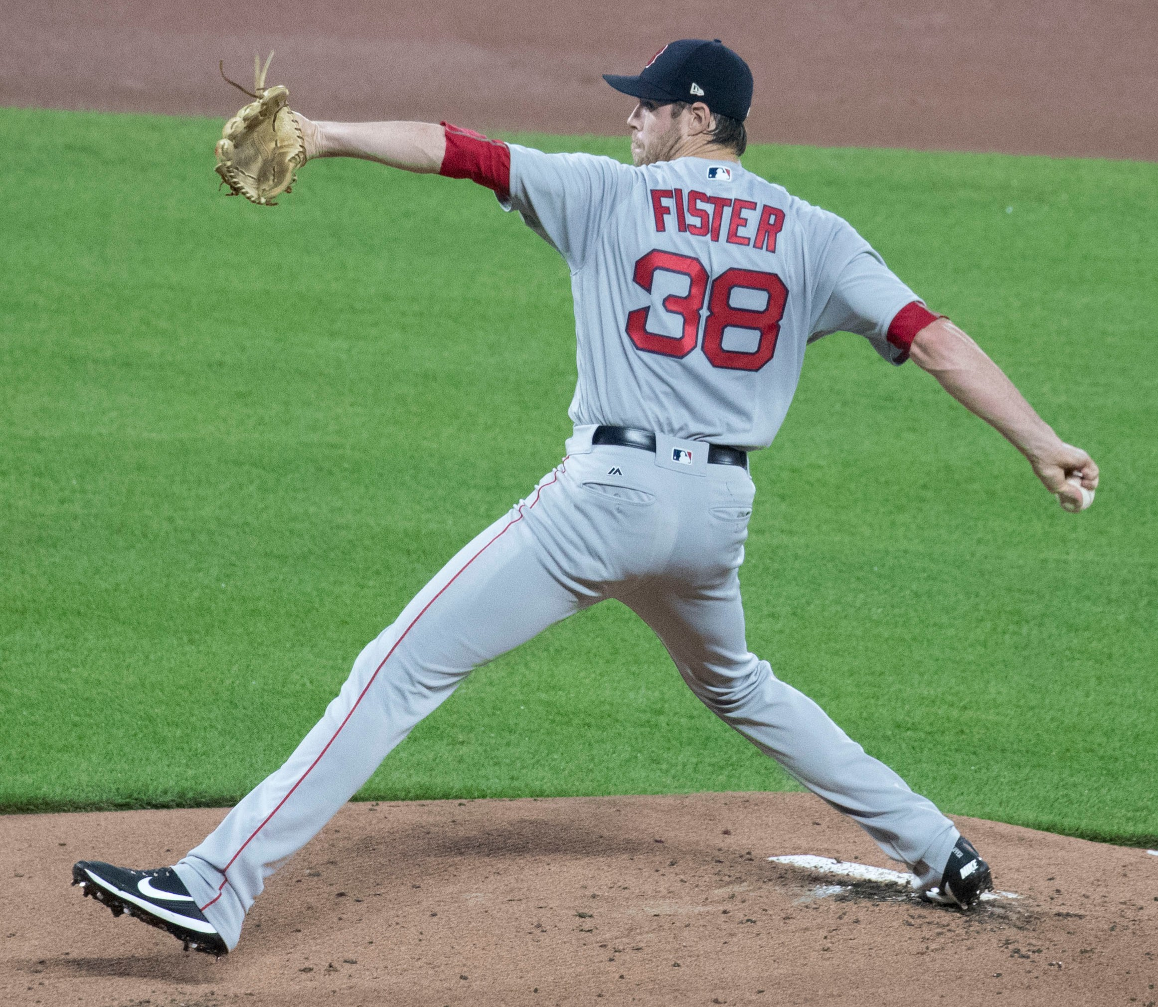 Doug Fister